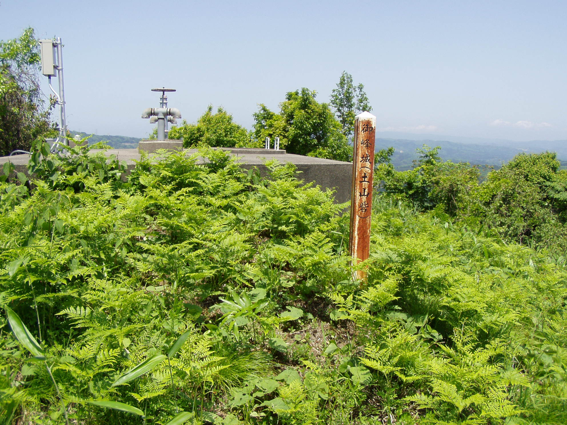 photo of Omine Castle (Toyama-Japan)